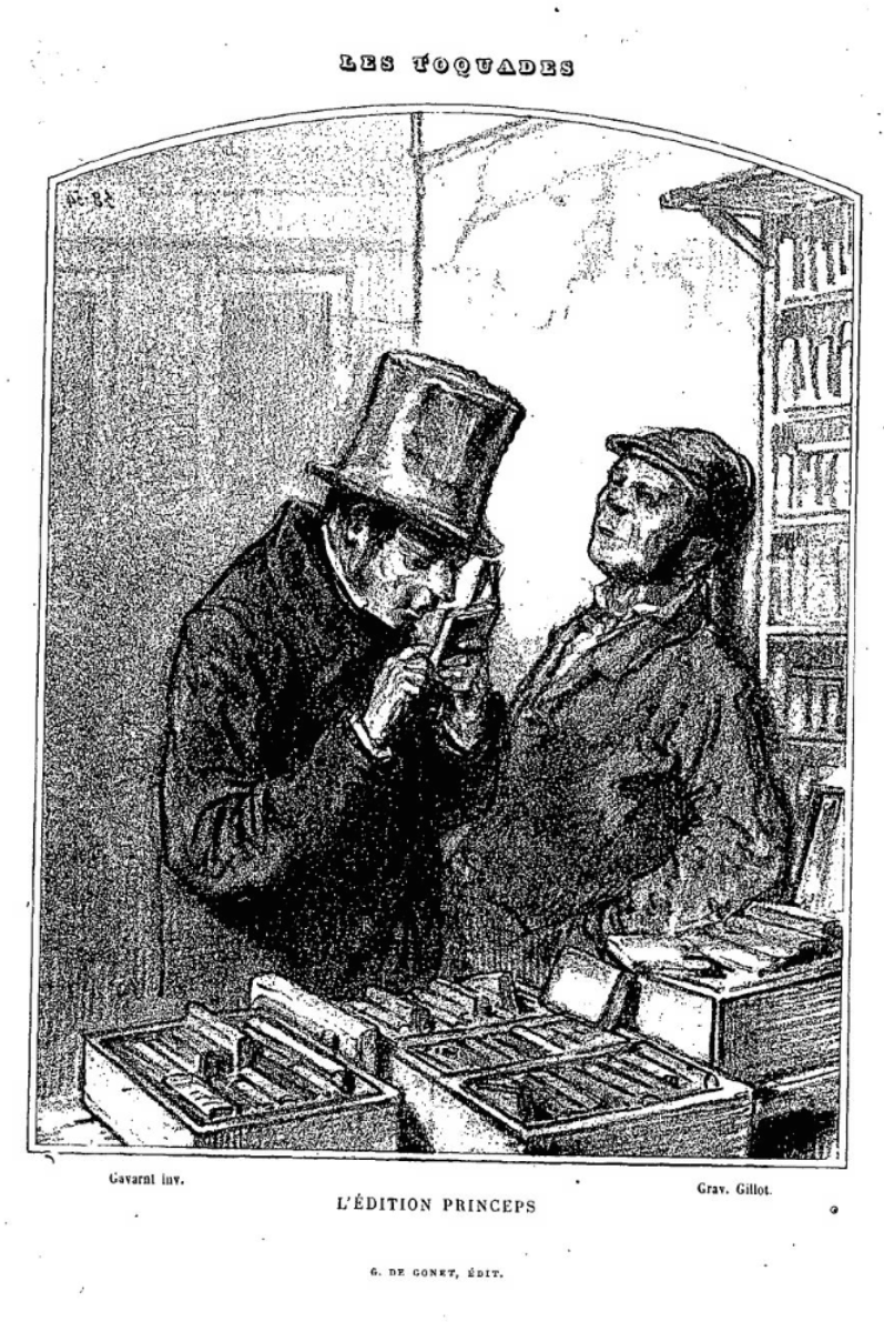 Les Toquades : L'édition princeps, one of the 20 lithographic prints for Les Toquades, étude de mœurs by Ch. de Bussy [Charles Marchal, 1822-1870], published in Paris: P. Martinon.